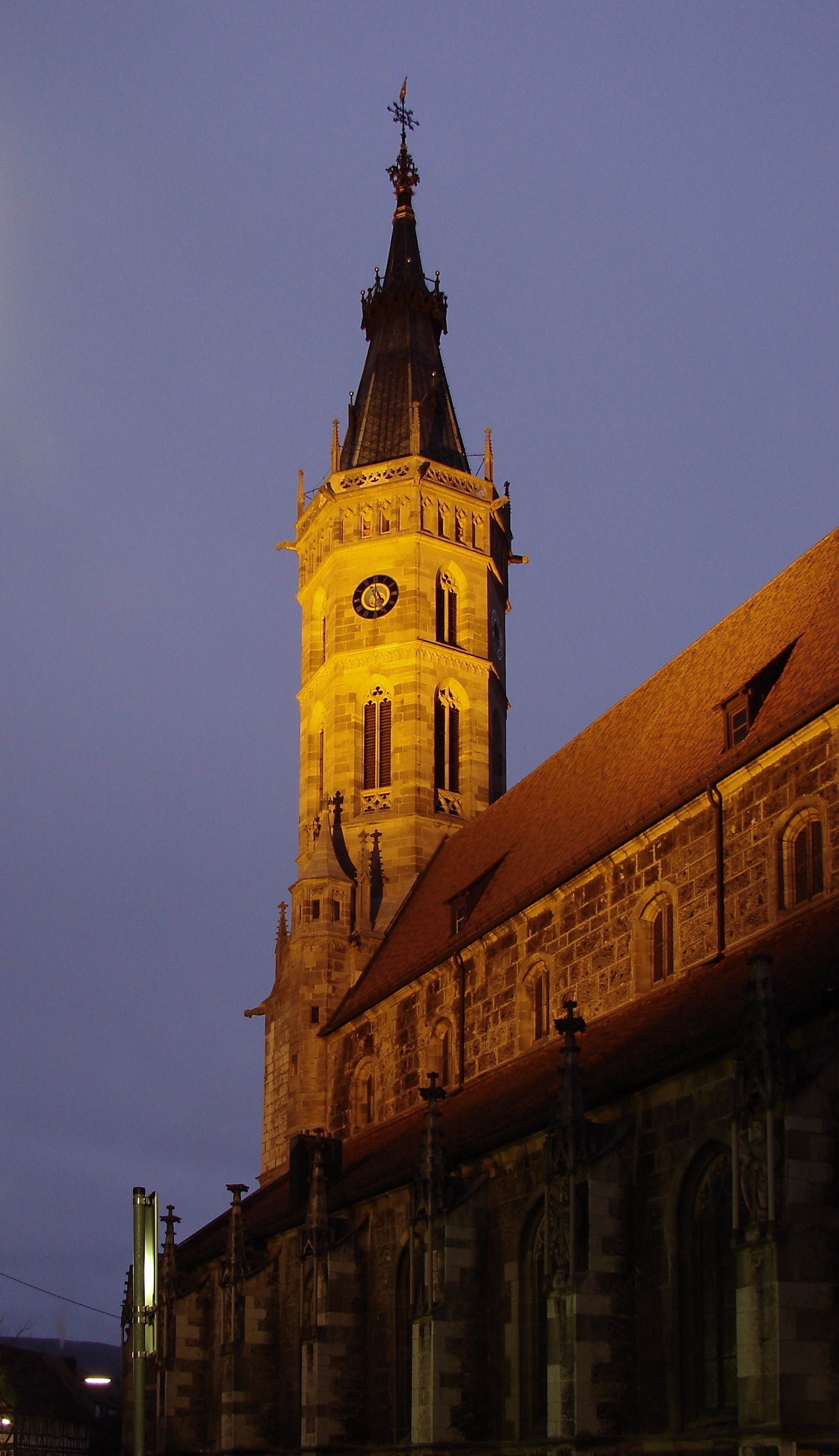 Bad Urach, St. Amandus collegiate church in the evening